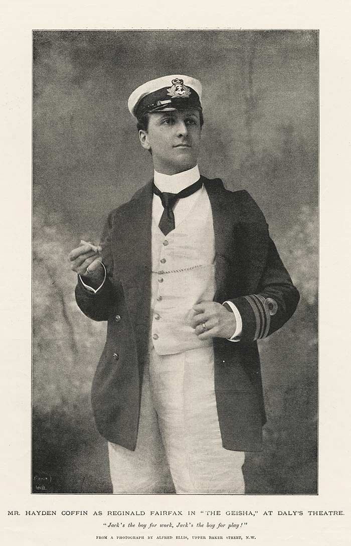 Photo of Hayden Coffin in The Geisha 1896